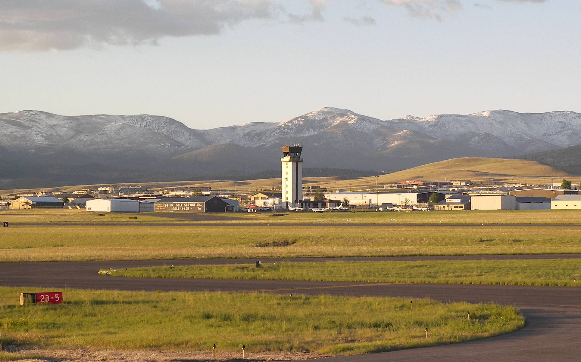 The control tower of Helena Regional Airport as seen from the terminal. The tower is located in Helena, Montana, United States